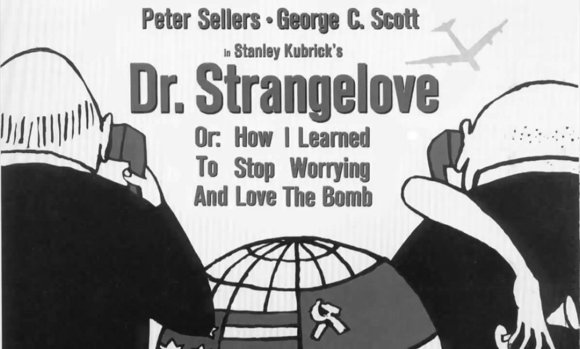 Screenshot of the trailer of Dr. Strangelove.